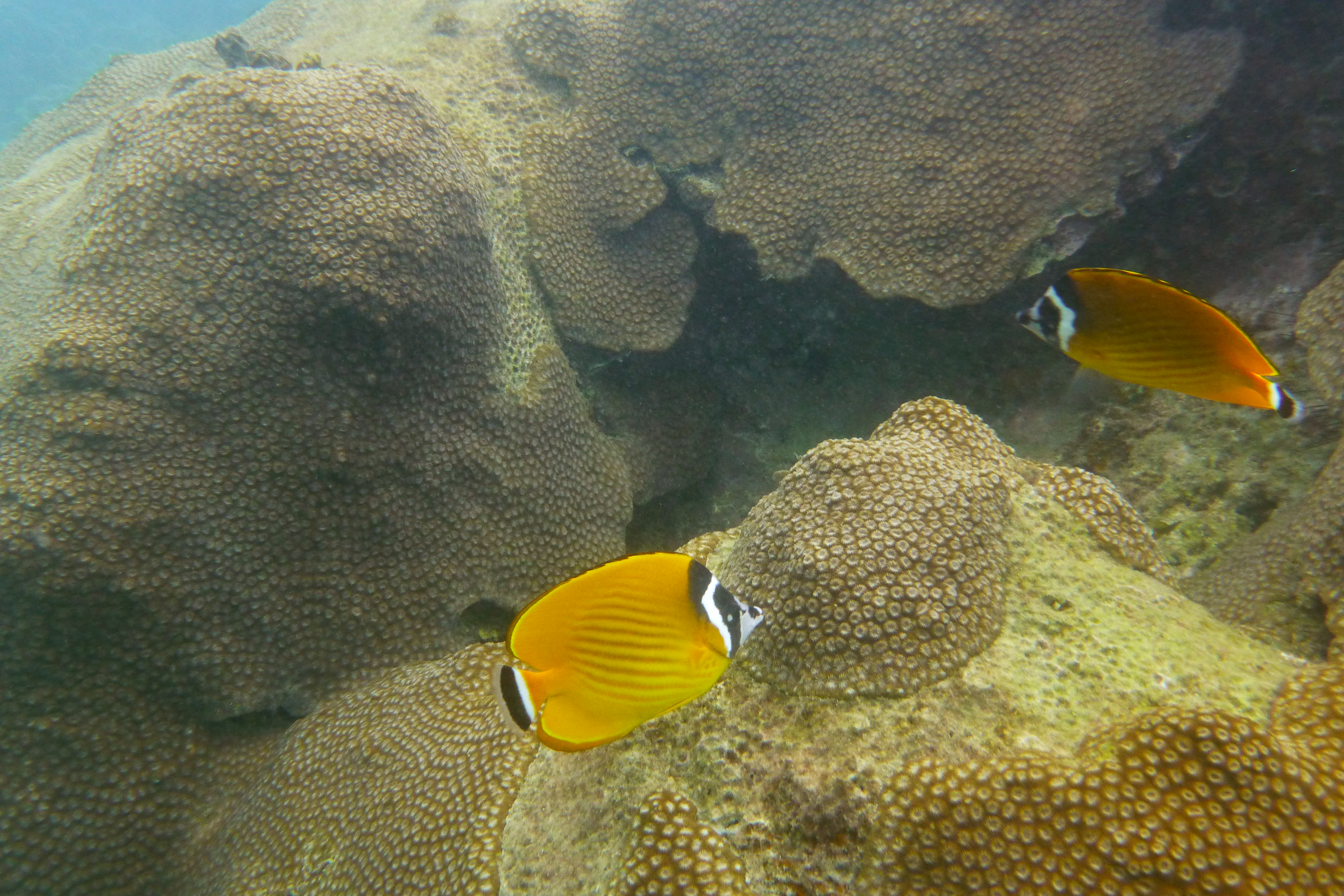 Hongkong butterflyfish. Underwater photographs of plants and animals from diving sites around Ko Tao, Thailand.